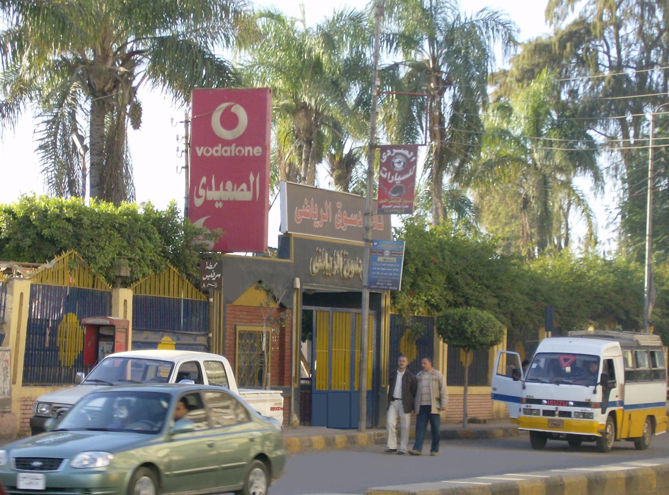 Desouk Sporting Club